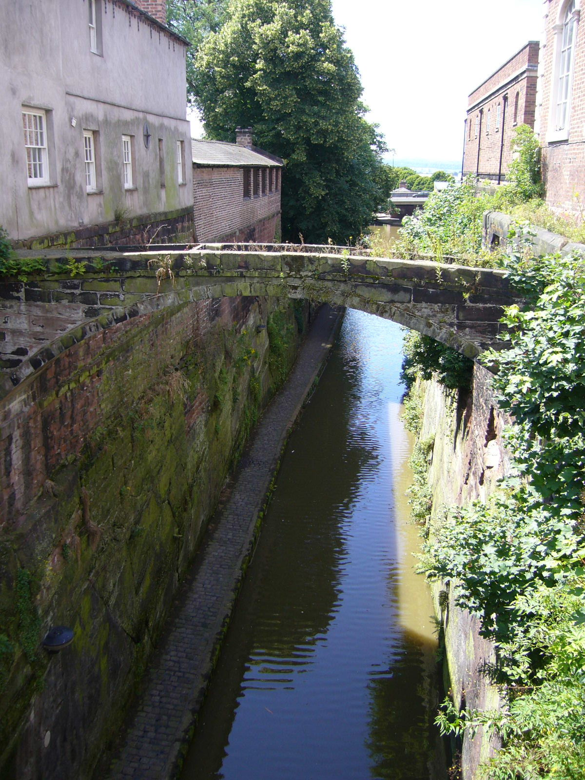 Looking west from Northgate Street, Chester, Cheshire down on to the Chester Canal. The bridge was constructed in 1793 to link the Northgate Gaol (on the left) to the chapel of the Bluecoat Hospital. It enabled prisoners condemned to execution to be taken securely to the Hospital's chapel to receive their last rites. It was christened the Bridge of Sighs after the Bridge of Sighs in Venice which had a similar purpose. When in use, the bridge had tall iron railings on each side.